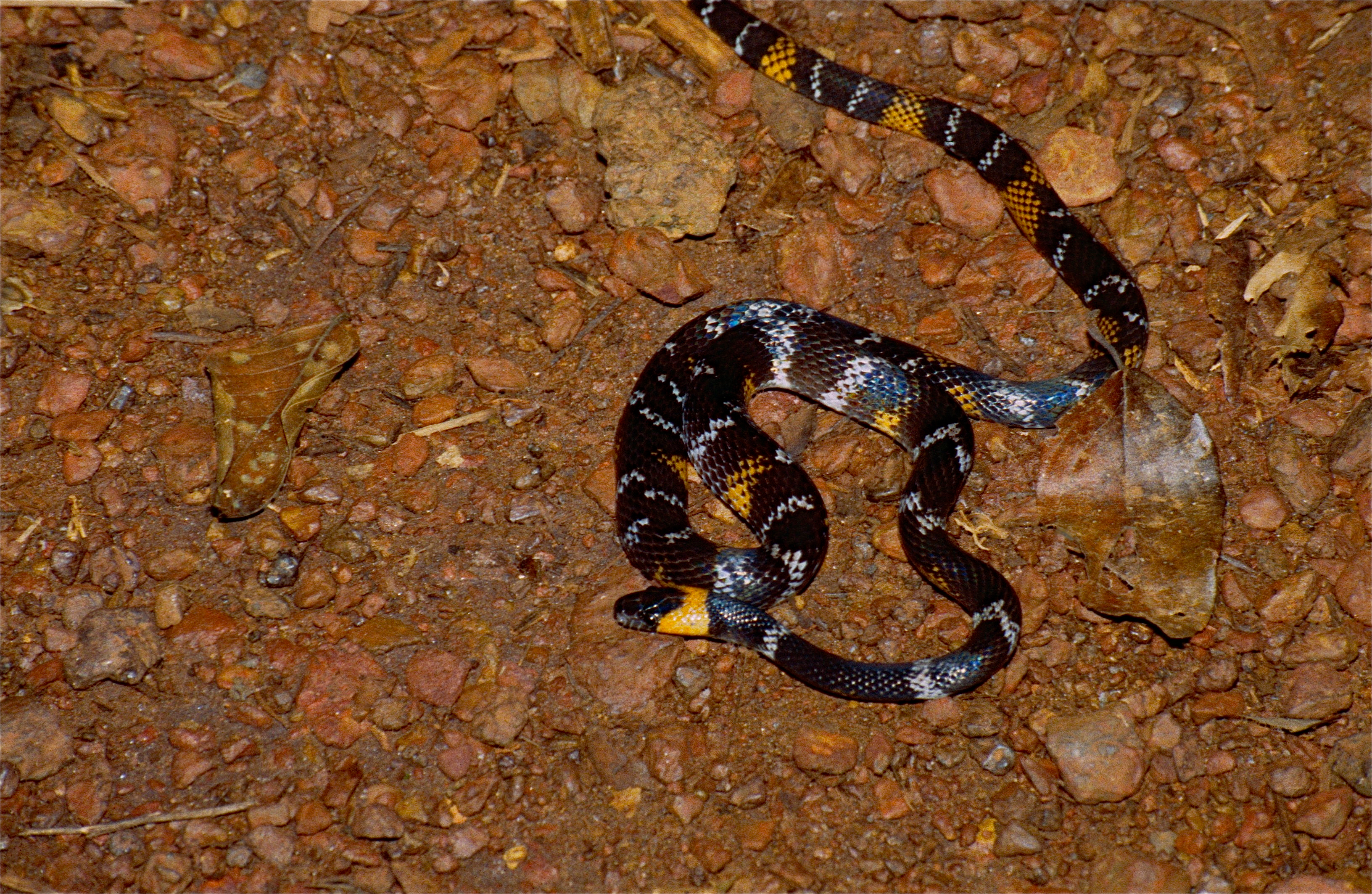 Route de Regina, Guyane, FRANCE Scanned Slide from 1998